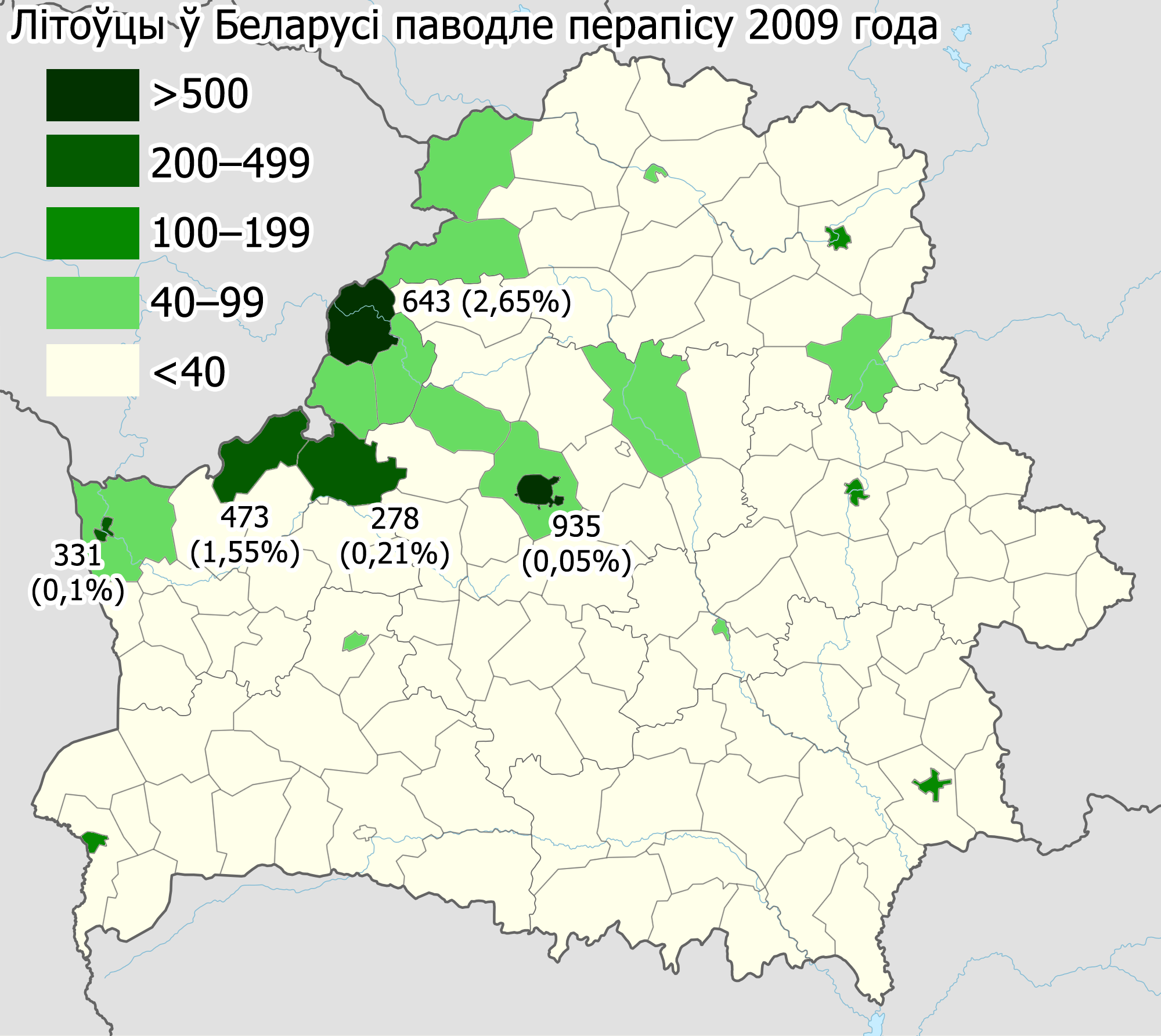 Lithuanians in Belarus according to 2009 census